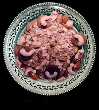 A purely dry food